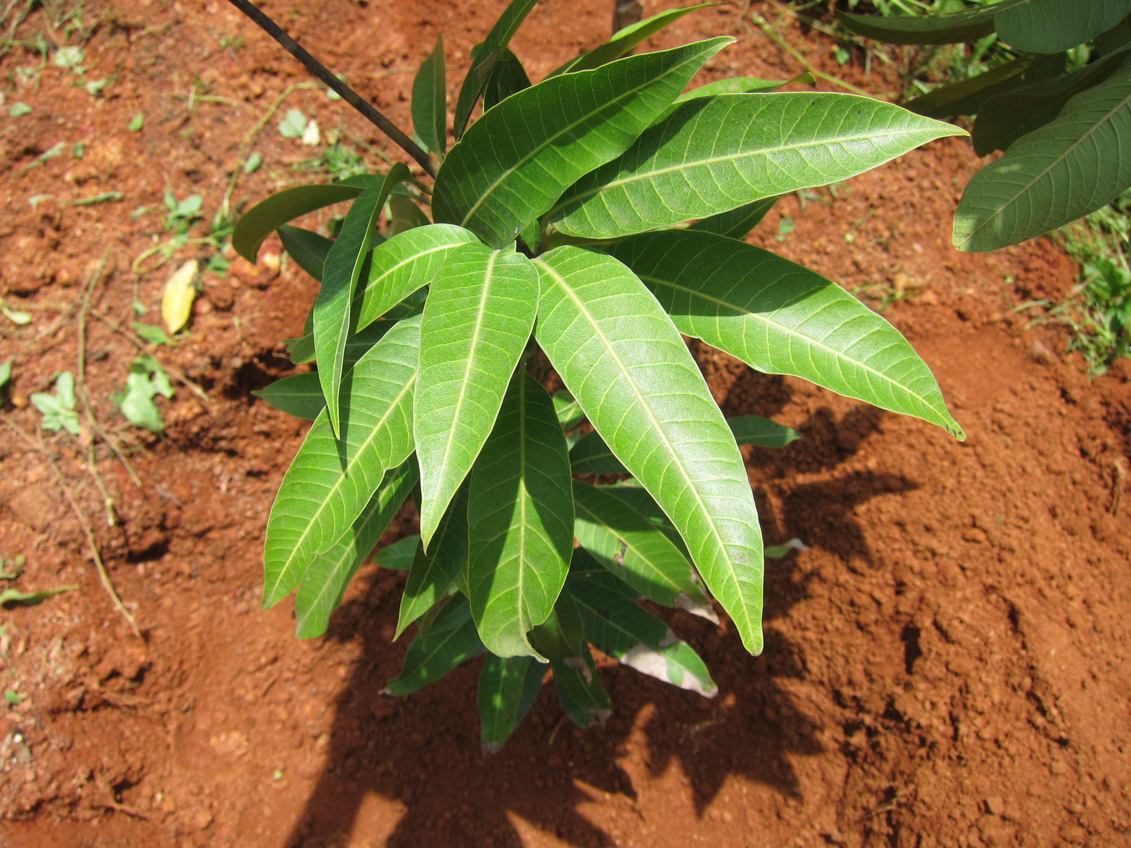 Mango മാവ്